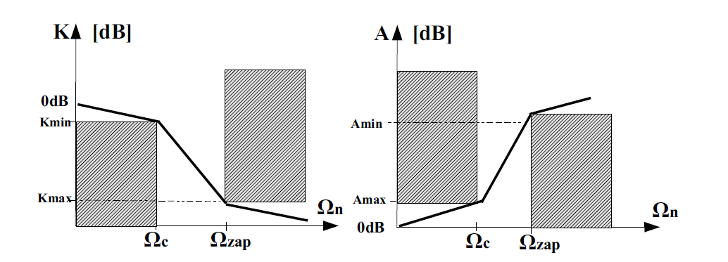 Chart – Gain, attenuation vs. frequency – prototype filter.